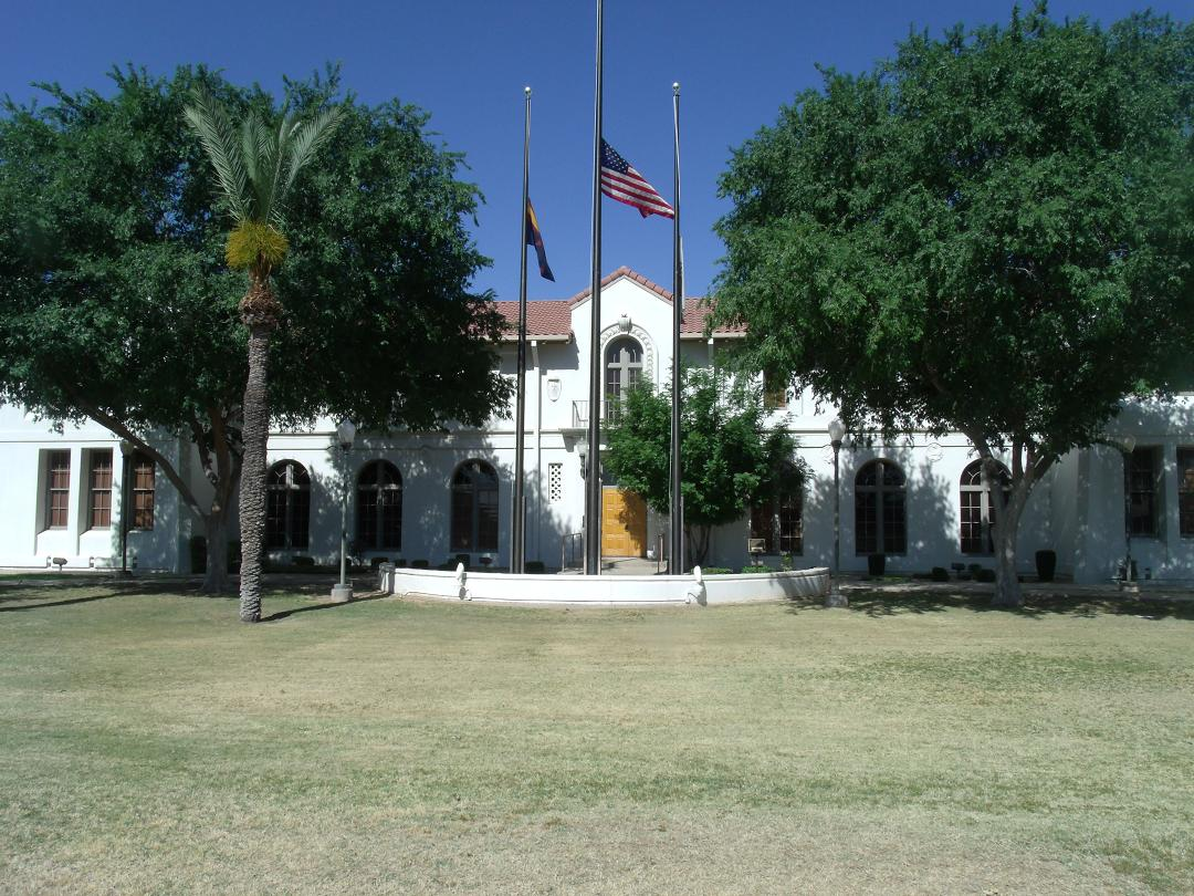 Gilbert High School built in 1918 in Gilbert Arizona. It now house’s the Gilbert Public School District Office. The structure is listed as historical by the Gilbert Heritage District